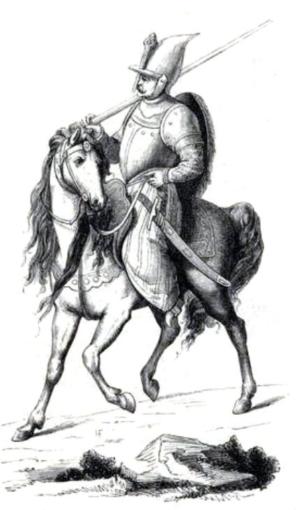 The Beylerbey of Rumelia, 16th century Ottoman Empire. Engraving by Cesare Vecellio (1521–1601).